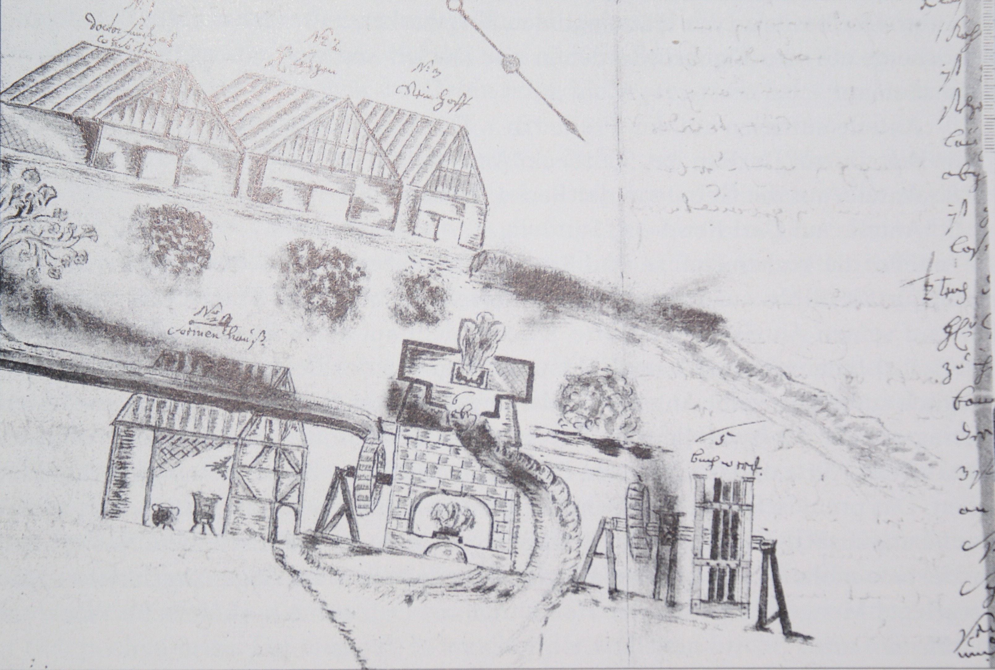 Hemer, Sundwiger Eisenhütte